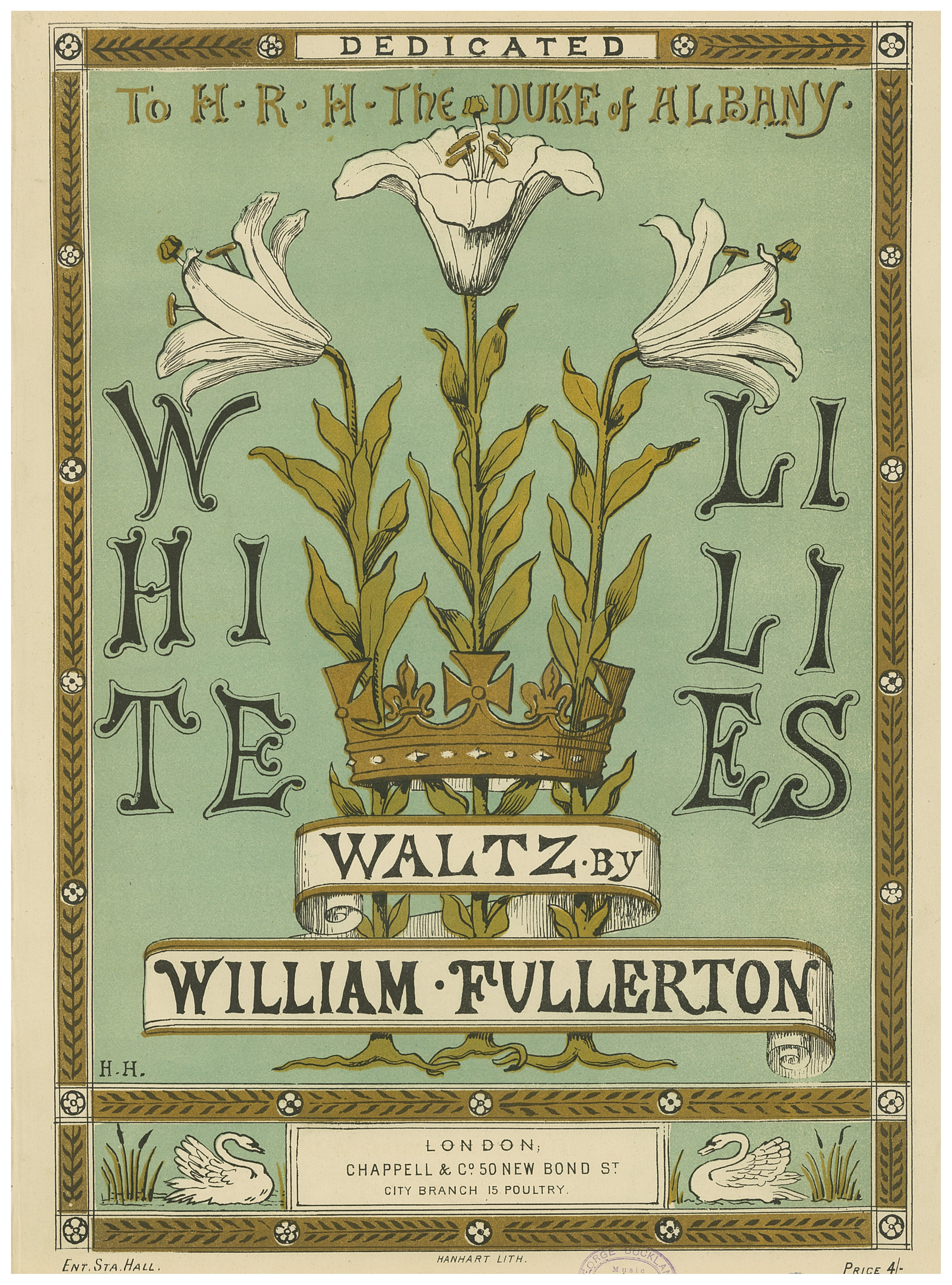 Original Sheet Music. This 1882 piece, "White Lilies Waltz," by William Fullerton, Jr. was dedicated to Prince Leopold, Duke of Albany, a favorite son of Queen Victoria who died from hemophilia in 1885.